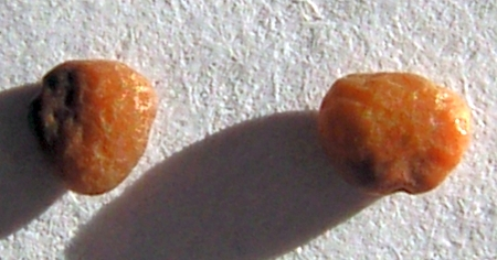 Seeds of Clitoria ternatea (the size of seeds is appr. 2.5 mm × 3 mm).